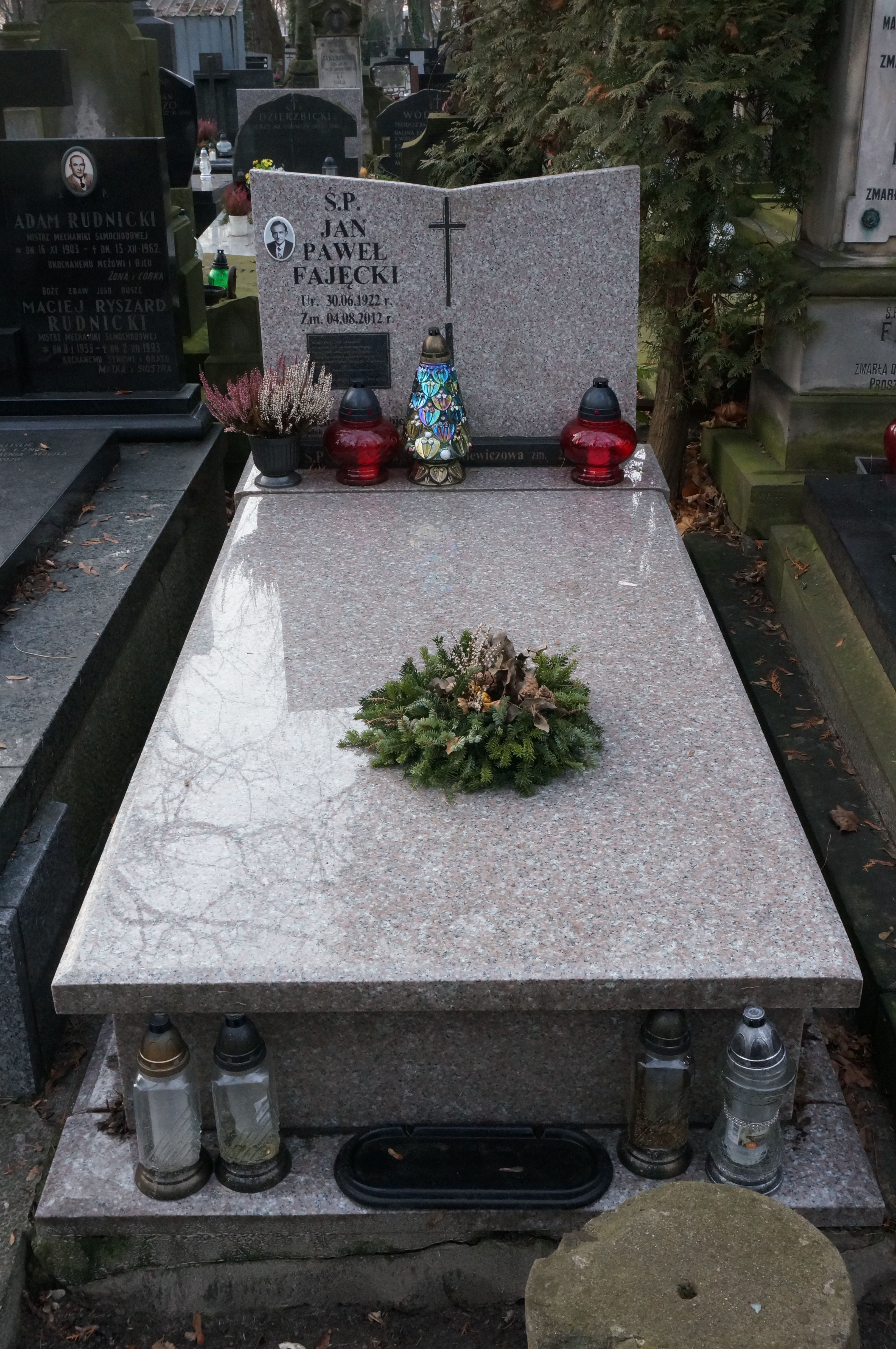 The grave of Jan Fajęcki at the Powązki Cemetery (section 267, row 1, grave 1, 2, 3)